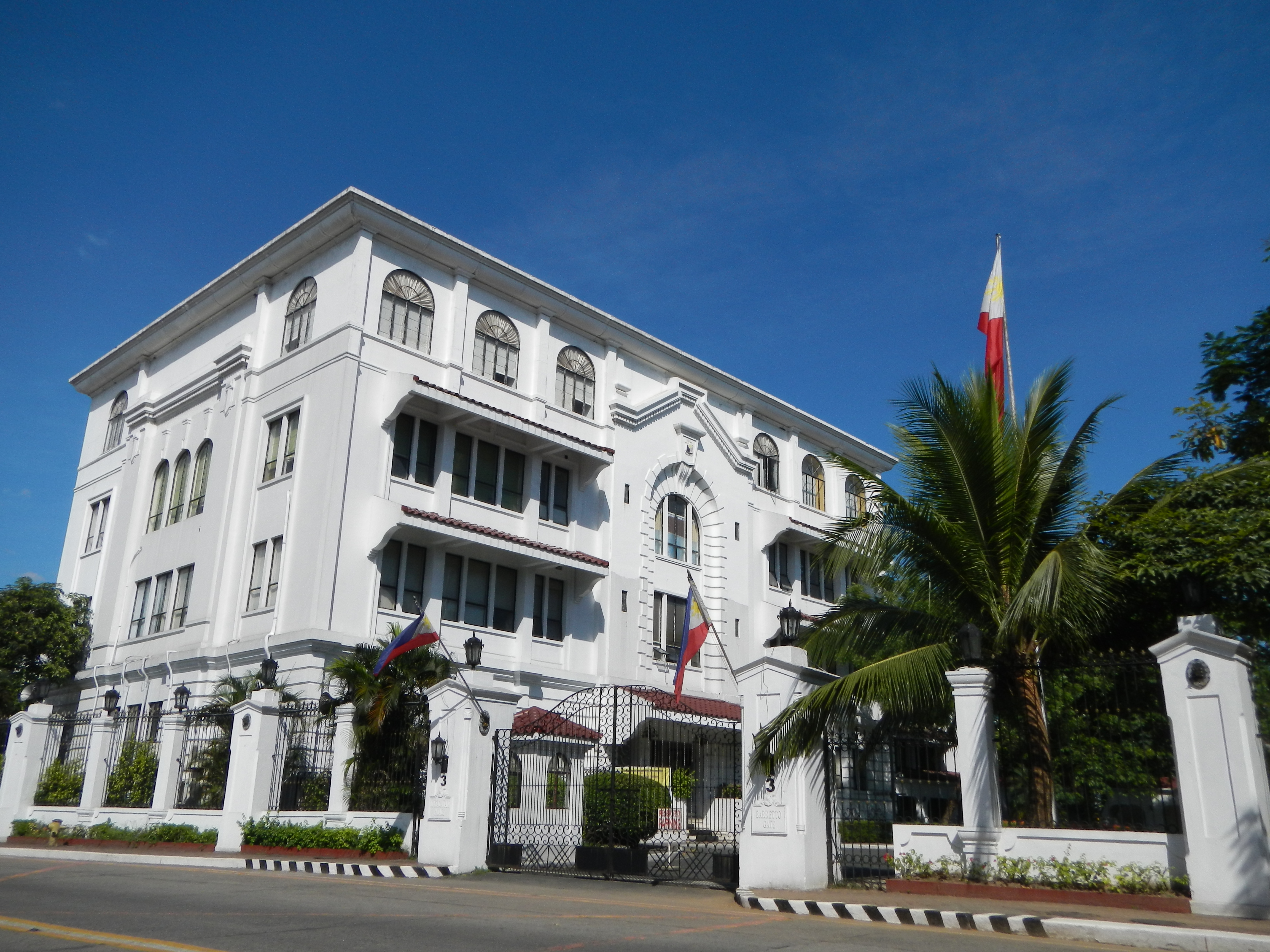 Malacañang Palace[1] [2] (Filipino: Palasyo ng Malakanyang), officially Malacañan Palace or simply "the Palace", is the official residence, but not the actual residence, and principal workplace of the President of the Philippines. It is located along Pasig River, Governors-General Francis Burton Harrison and Dwight F. Davis built an executive building, the Kalayaan Hall, which was later transformed into a museum. Since 1986 when Cory Aquino became president, only one president, Gloria Macapagal-Arroyo, has actually lived in the palace proper, though all lived on the grounds or nearby.[3]Coordinates: 14°35'38"N 120°59'39"E [4] 1000 José P. Laurel Street, San Miguel, Manila[5]Malacañang Palace and Museum Site of the presidency of the Philippines. The Malacañang Museum is situated in historic Kalayaan Hall – the old Executive Building built in 1920 lat: 14.5935506821, long: 120.995094299 [6] New Malacañang Facebook page seeks pics from Palace visitors[7]